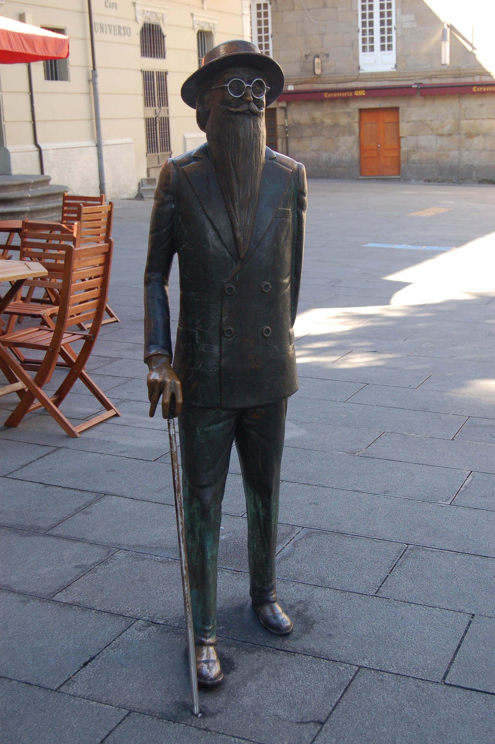 Estatua de Valle-Inclán na praza de Méndez Núñez de Pontevedra